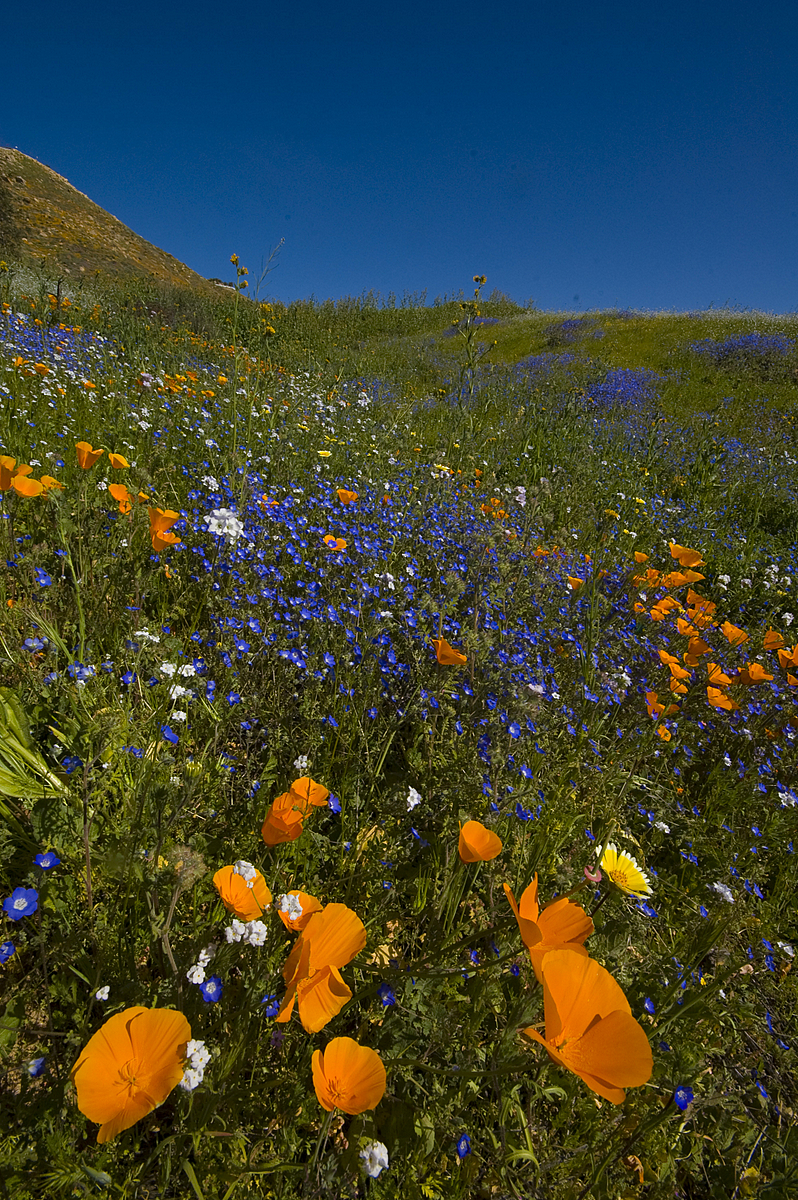 Wildflowers and poppies in the hills surrounding Lake Elsinore, California.